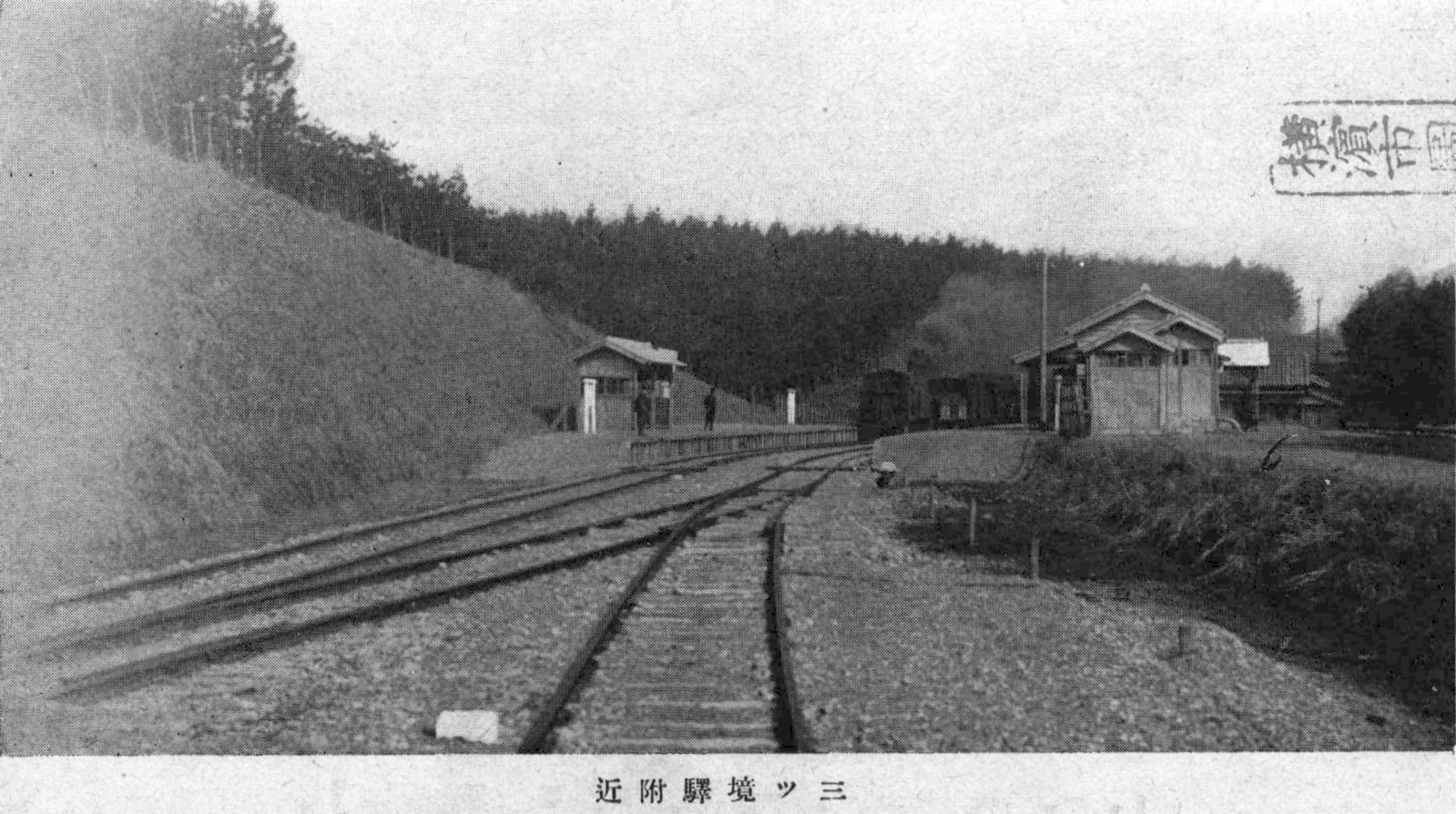 Mitsukyo Station on the Jinchu Railway Co.,Ltd. around 1927. Currently Sagami Railway Co.,Ltd.